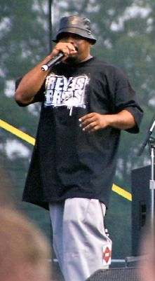 Sen Dog at the Bonnaroo Music Festival in Manchester, Tennessee.